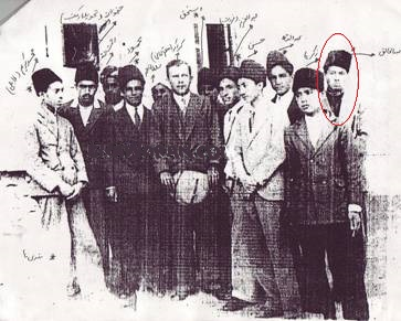 It's historical image